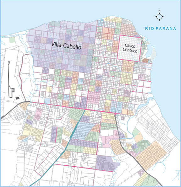 Villa Cabello, Posadas, Misiones, Argentina